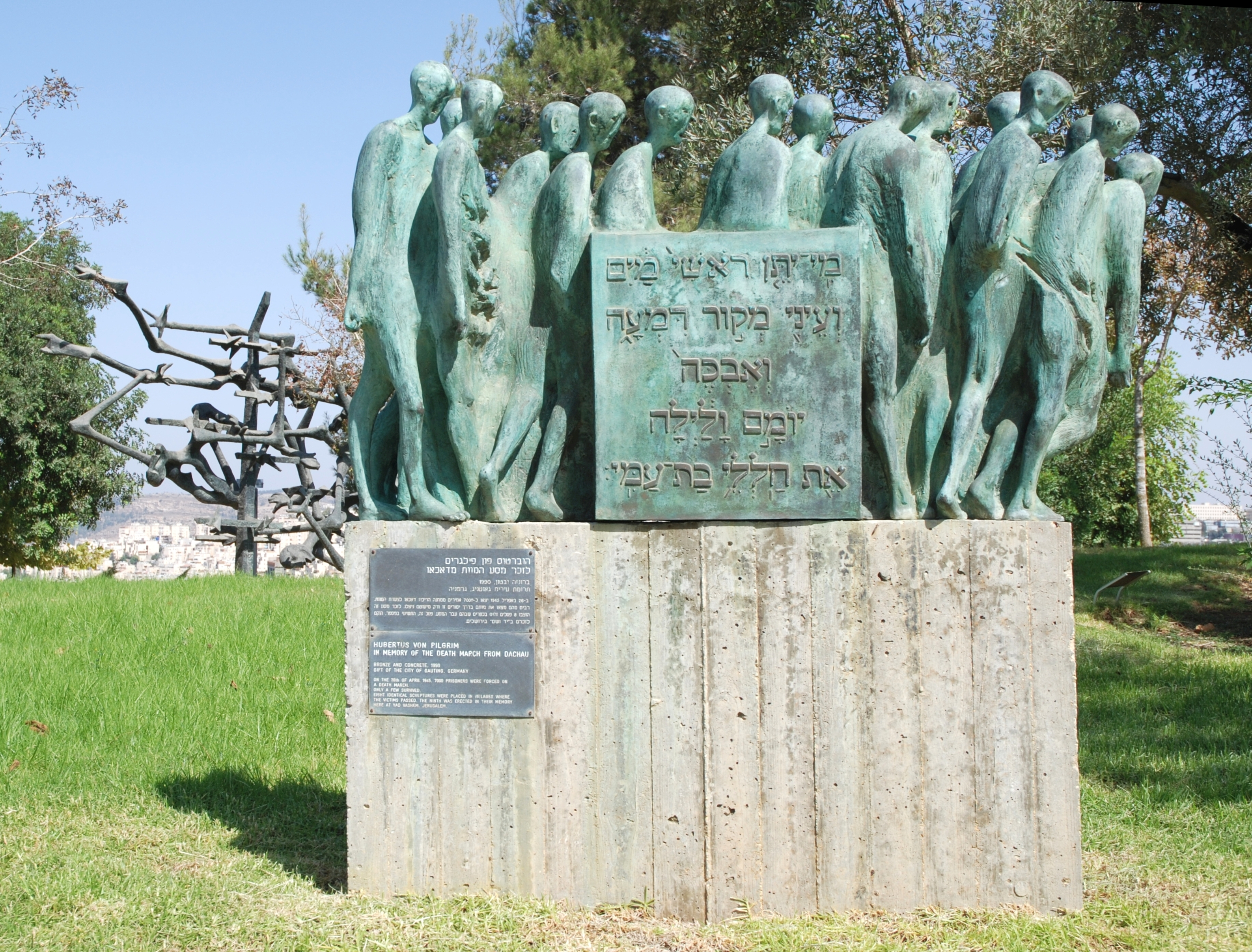 Memorial for the victims of the evacuation of concentration camps only weeks before the end of World War Two. Artist: Hubertus von Pilgrim. Location: Yad Vashem, Jerusalem, Israel.